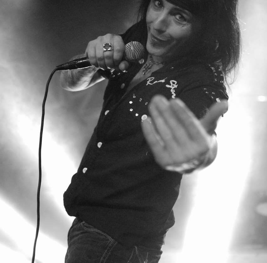 Phil Lewis, L.A. Guns vocalist